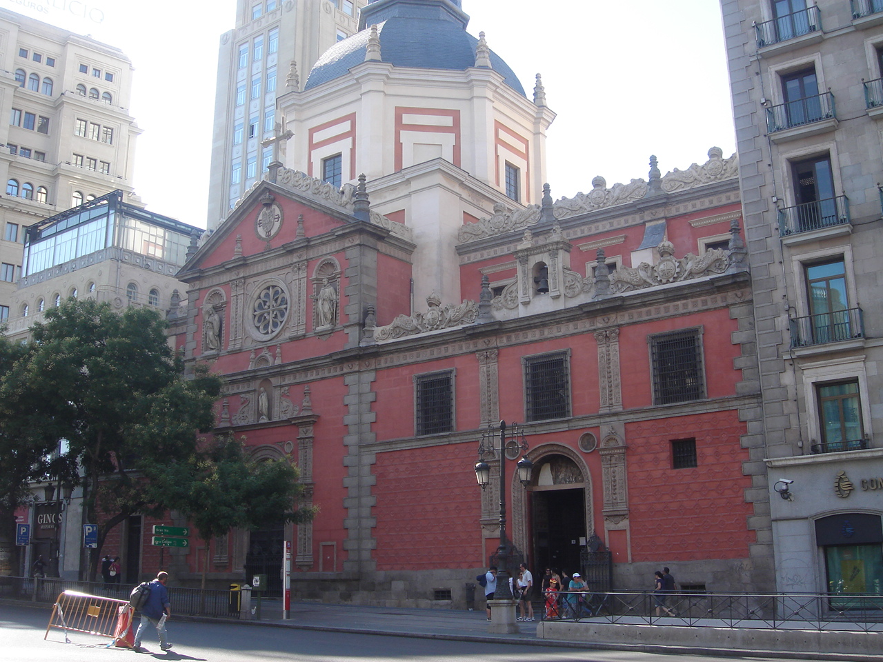 Iglesia de las Calatravas in Madrid (Spain).